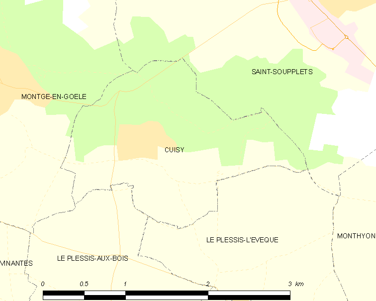 Map of French municipality Cuisy